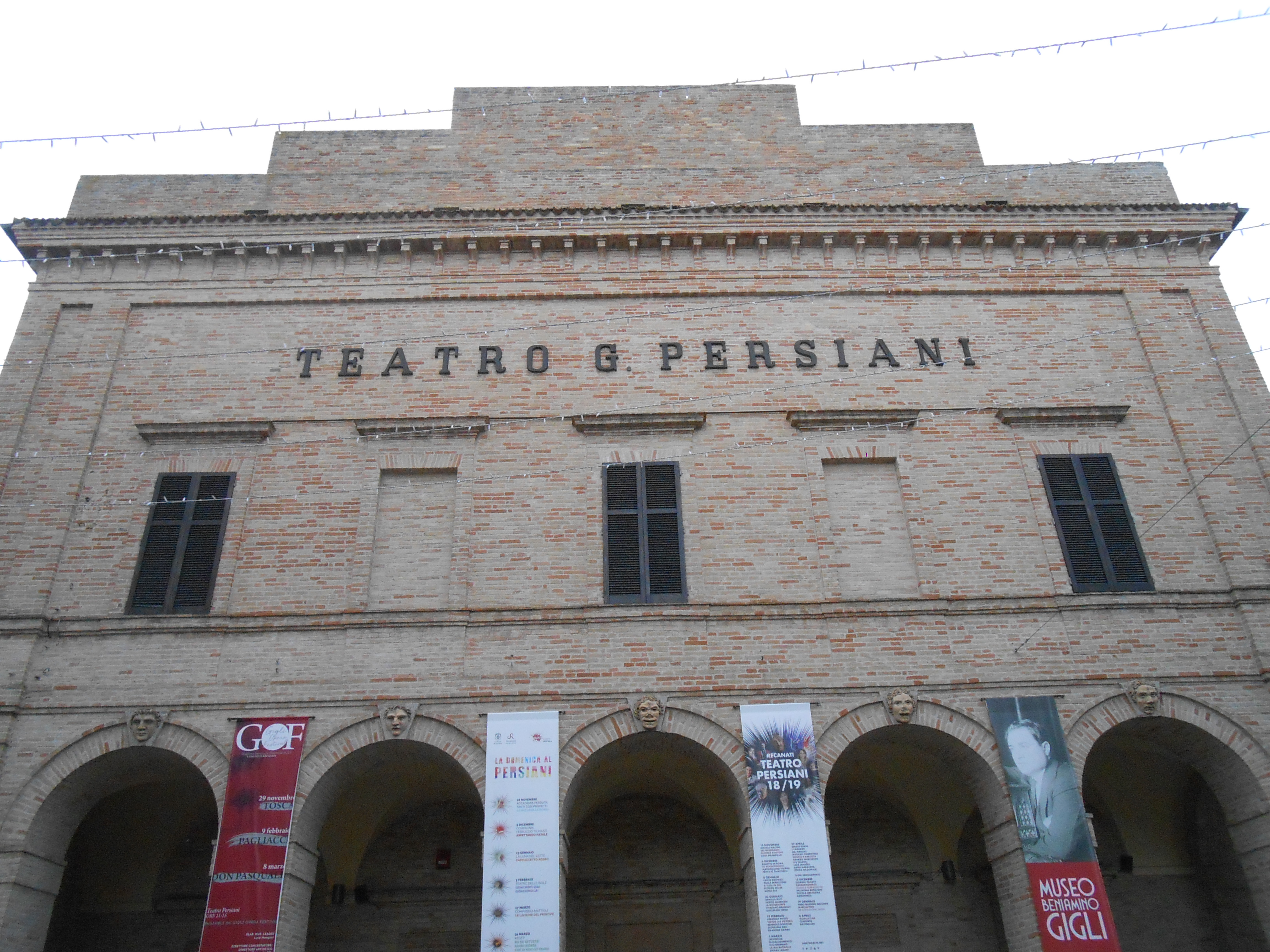 Giuseppe Persiani theatre, Recanati